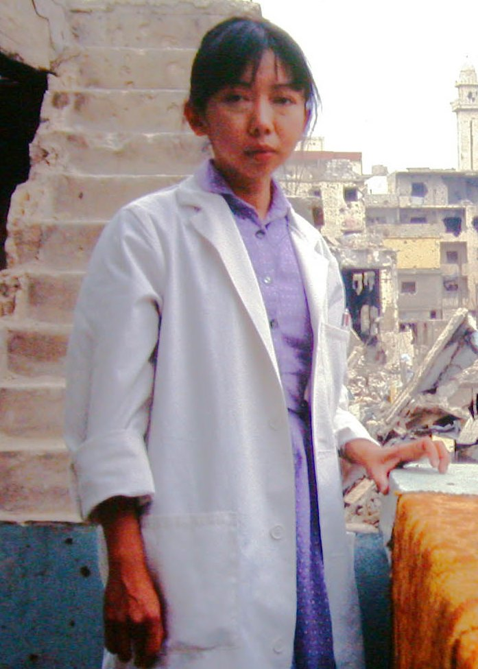 Ang Swee Chai in the refugee camp in Beirut in 1985.